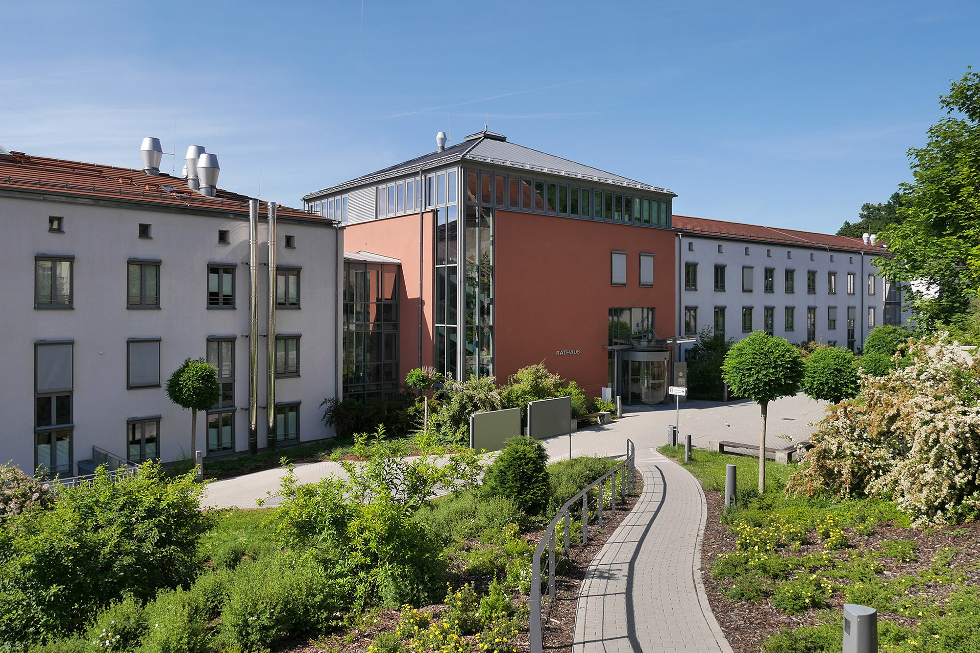 Schwandorf city hall